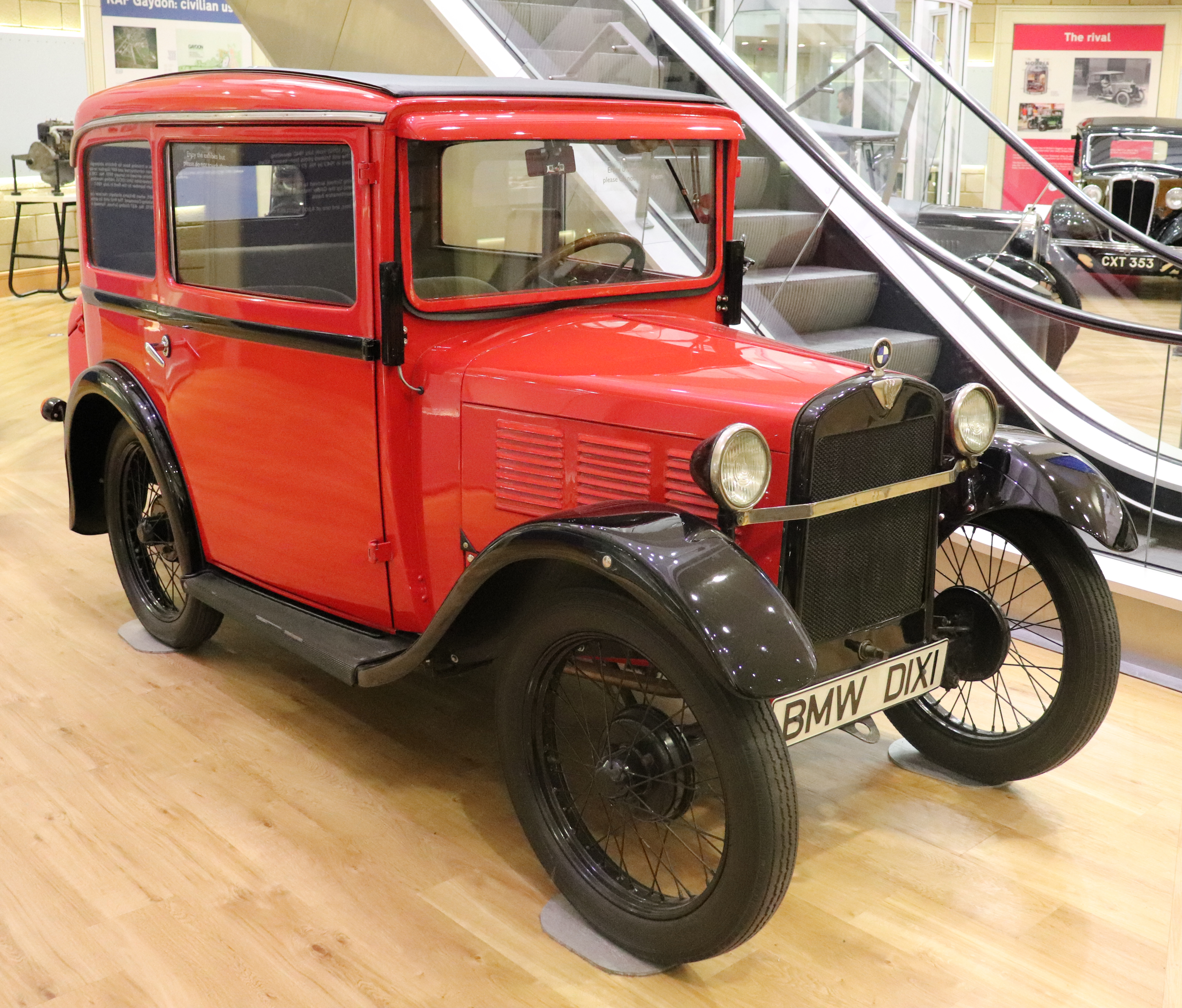 1928 BMW Dixi 3-15 750cc Taken at the British Motor Museum, Gaydon